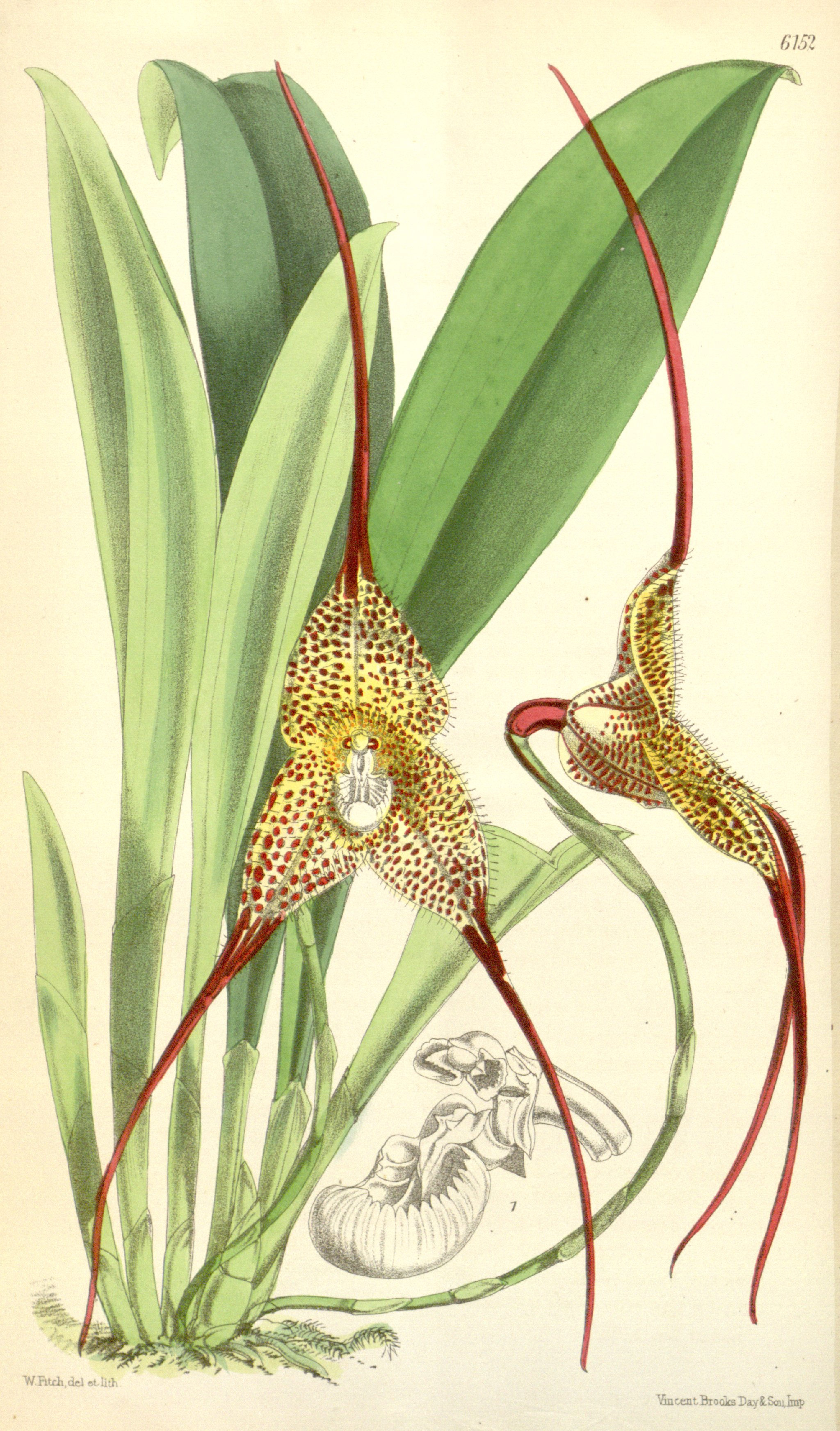 Illustration of Dracula chimaera (as syn. Masdevallia chimaera)